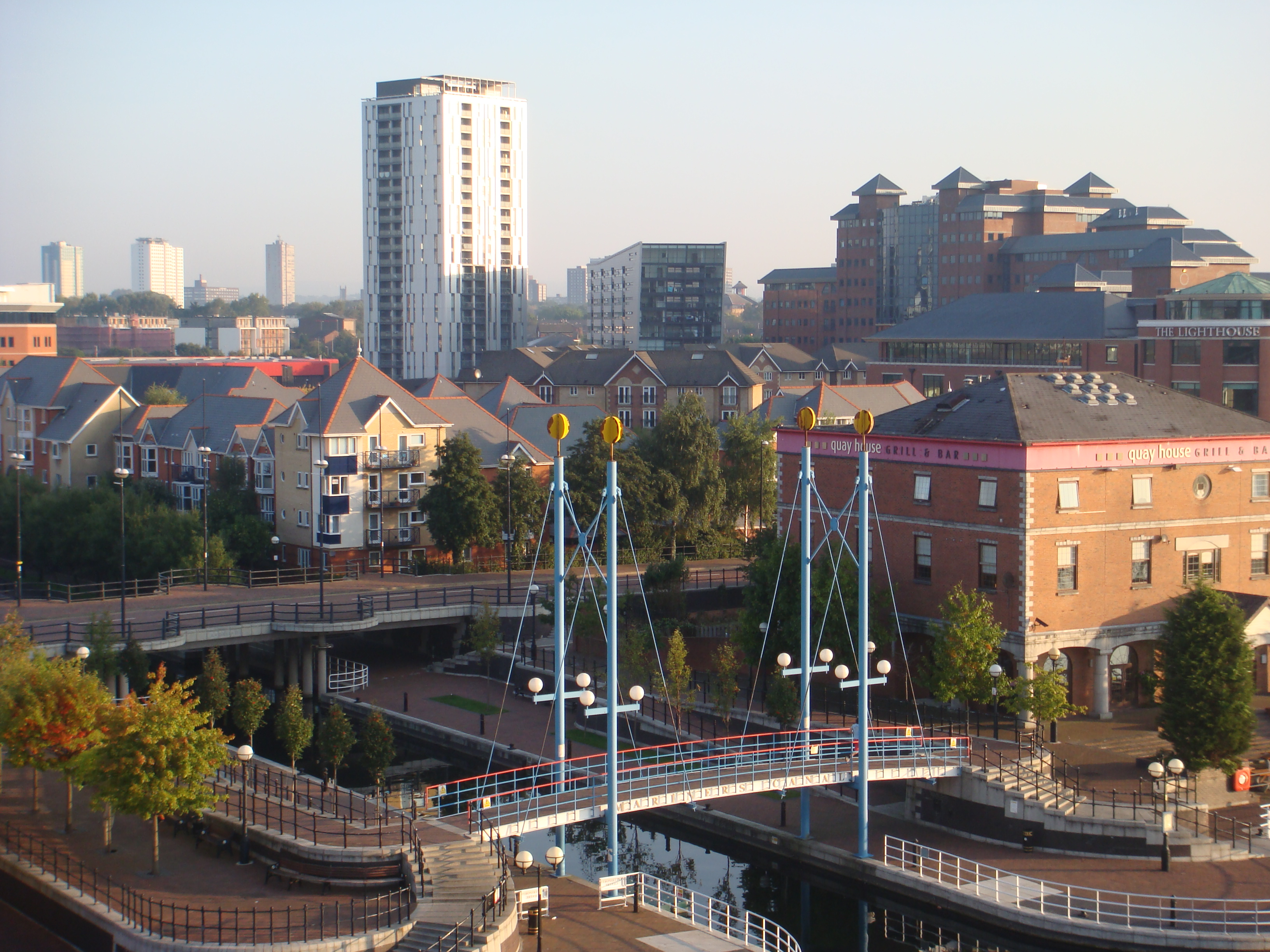 A view over Salford Quays, Salford, Greater Manchester, England.